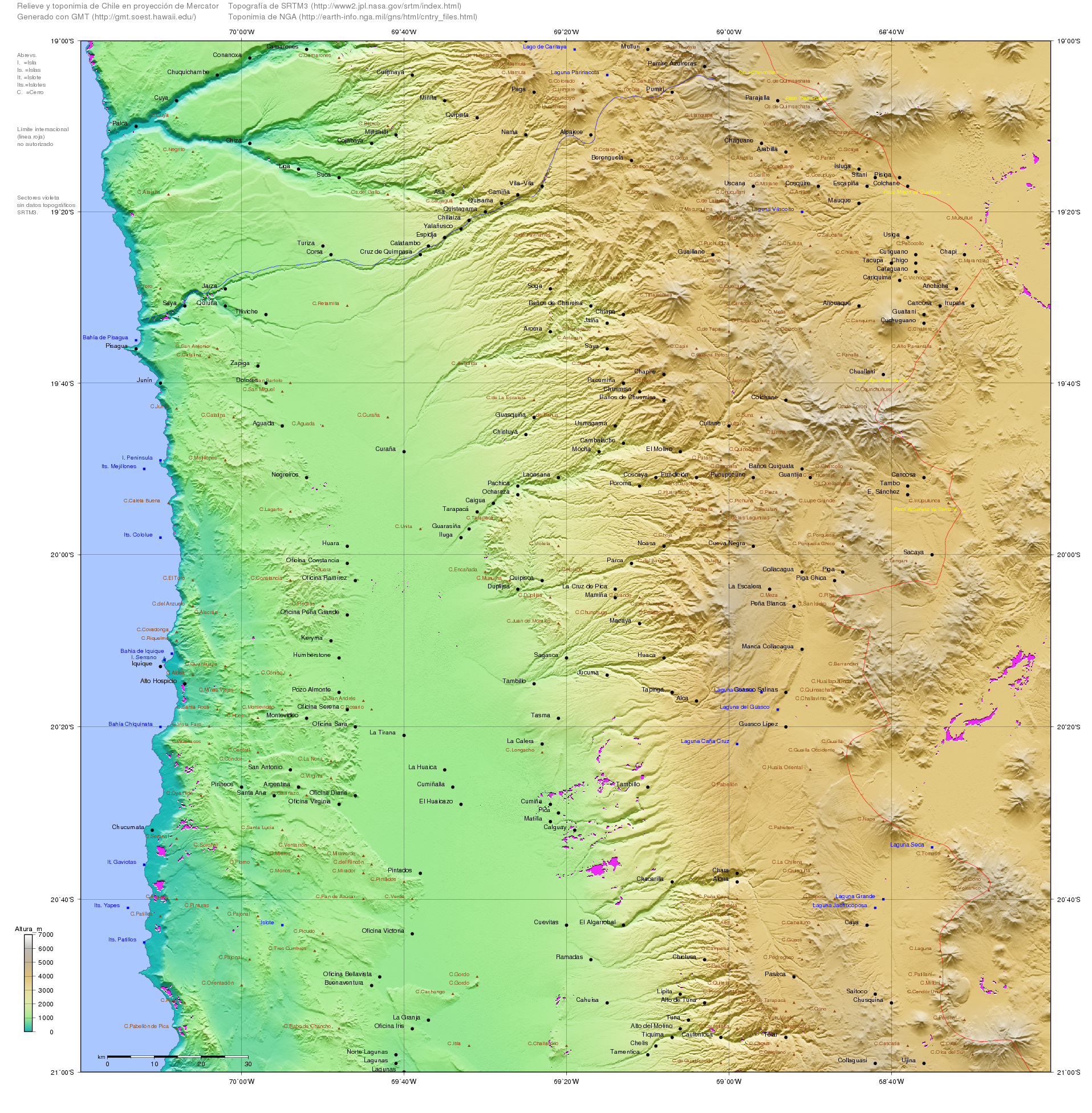 Map of Chile generated with GMT ( topography from SRTM ftp://e0srp01u.ecs.nasa.gov/srtm/version2/SRTM3/ and toponymy from